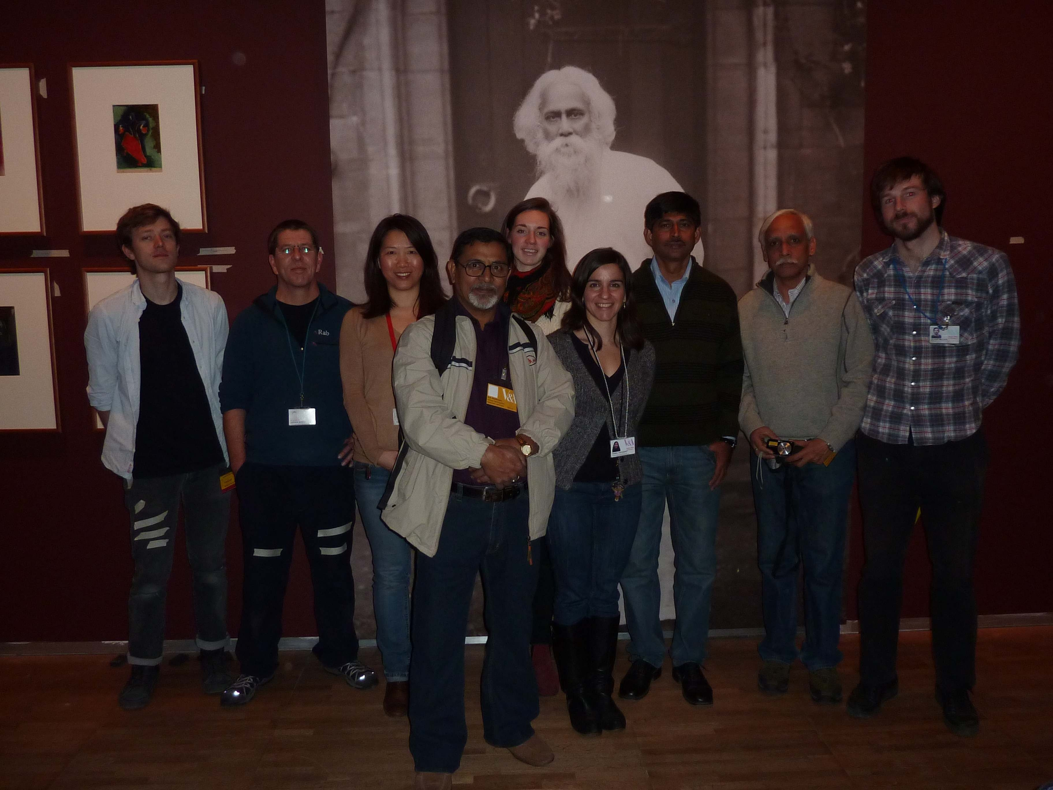 Installation team at V&A